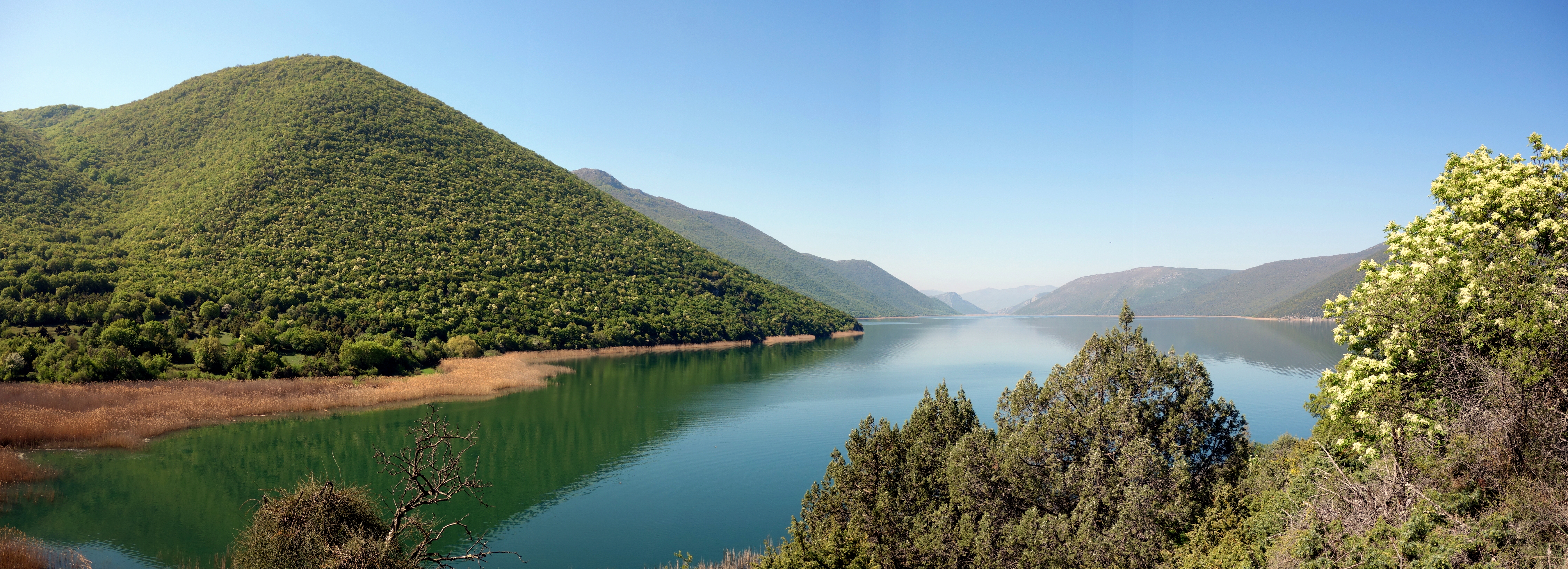 This is a photography of Natura 2000 protected area with ID GR1340001